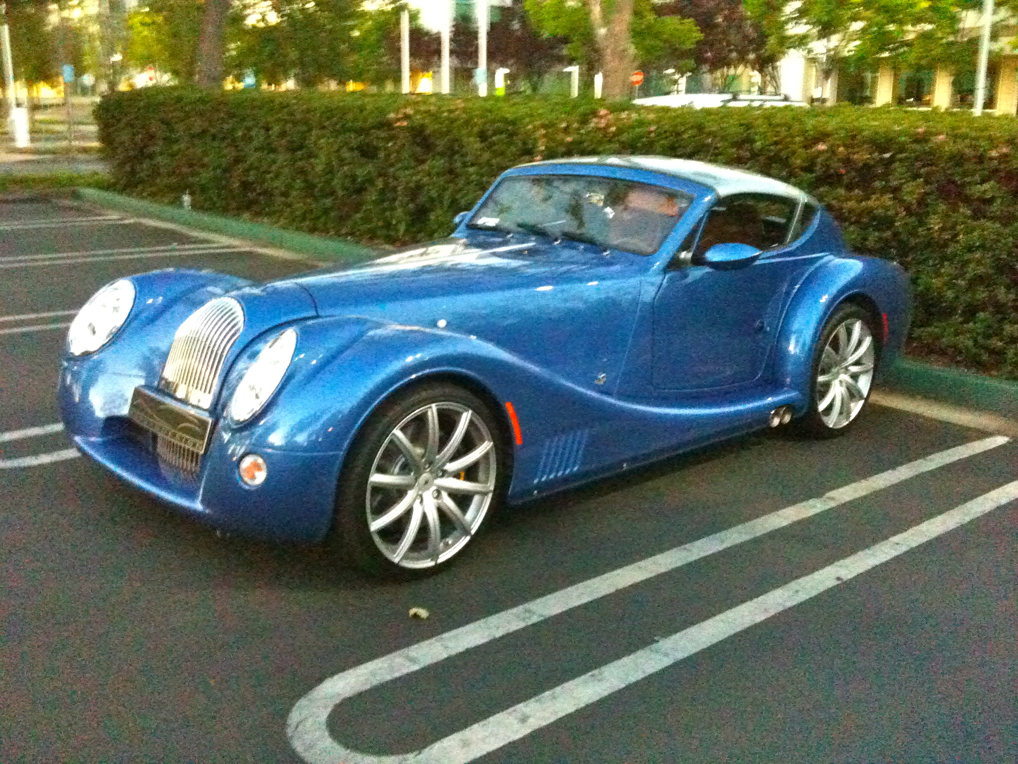 A 2010/2011 model Morgan Aero SuperSports. Unlike the Morgan Aeromax, it has a detachable 'targa' top.